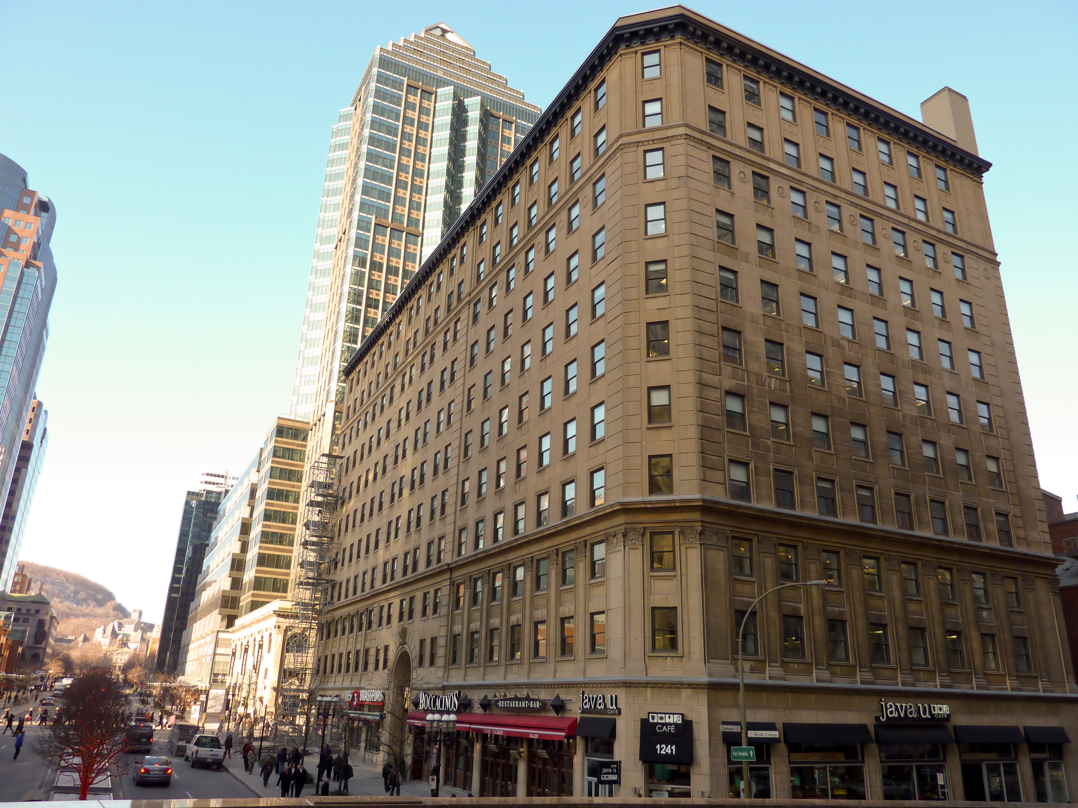 1253 McGill College Avenue, Montreal (originally known as the Confederation Building) designed by Ross and MacDonald.